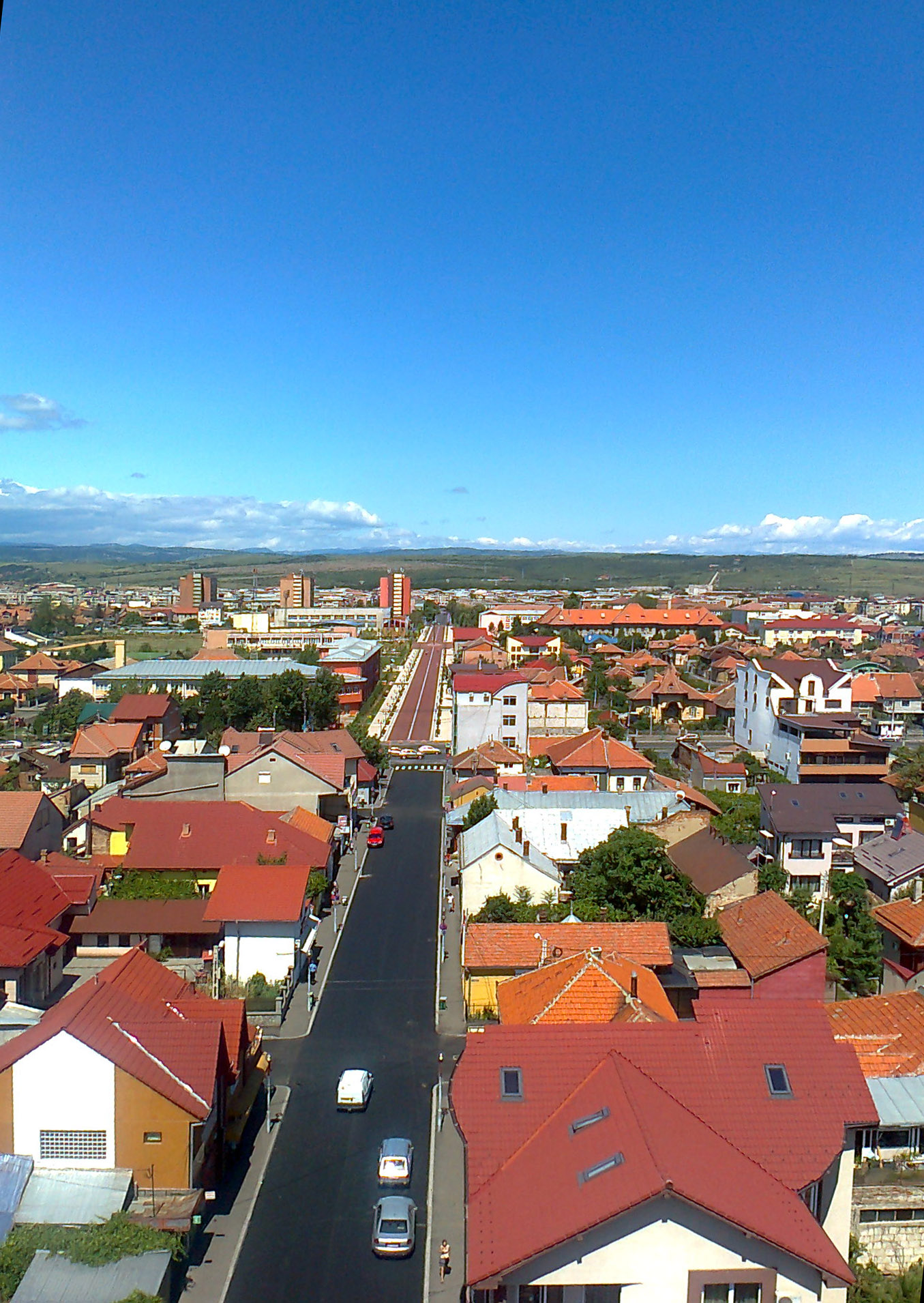 Overview of the city from the top of the Water Tower of Drobeta-Turnu Severin, with the Crișan street on the middle.